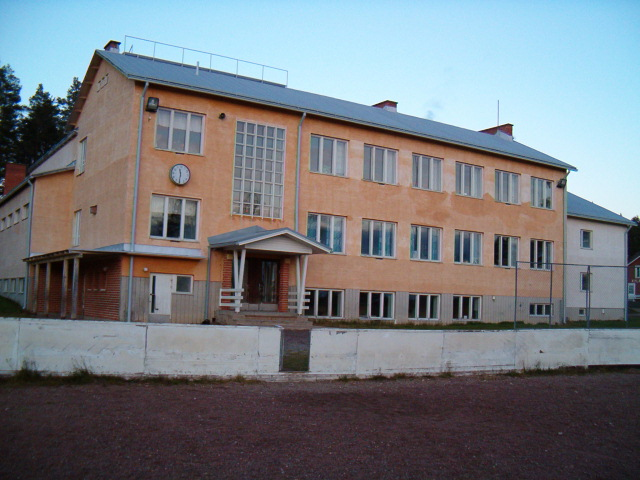 Tavastkenkä School in Pyhäntä, Finland